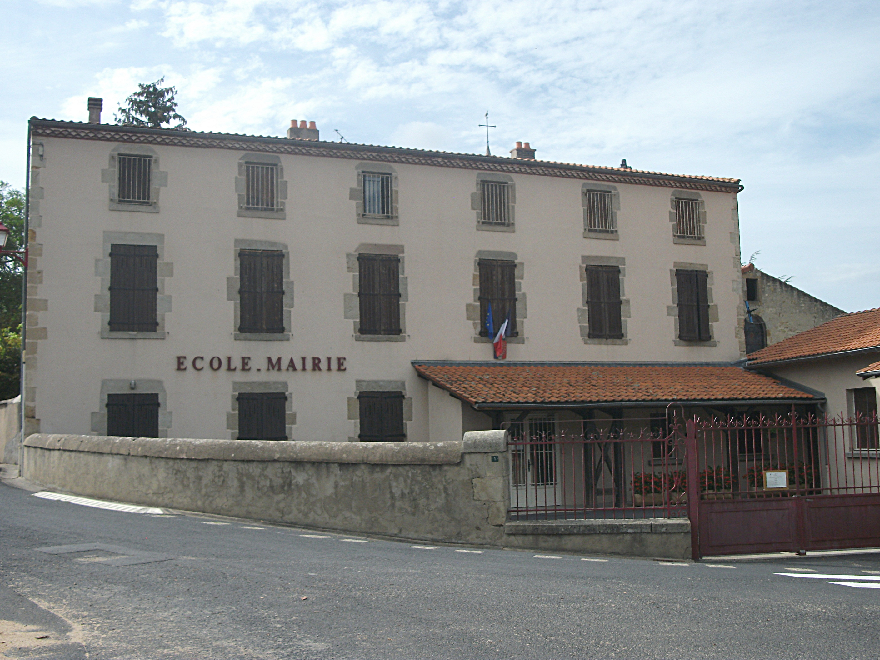 Town hall-school of Sauvagnat-Sainte-Marthe, Puy-de-Dôme, Auvergne-Rhône-Alpes, France. [18953]